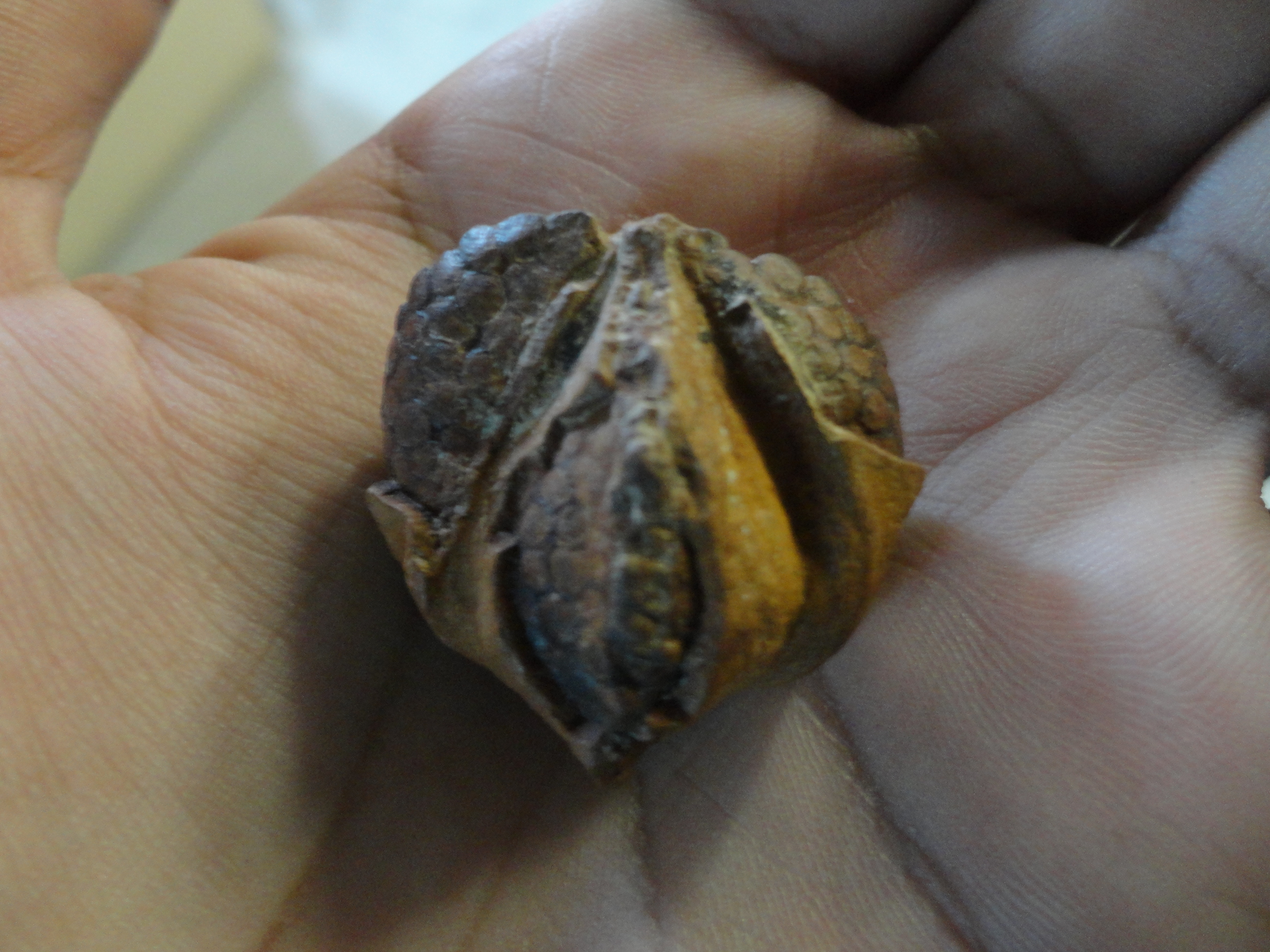 Gymnosperm seed fossil at the Desert Museum. Saltillo, Coahuila, Mexico.